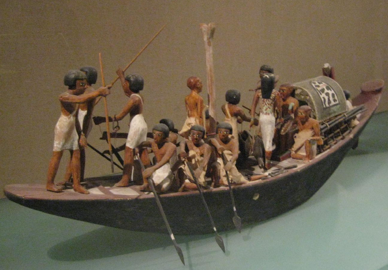 An Egyptian dynasty 12 model boat dating to the early years of king Amenemhet I. Now located in the Metropolitan Museum of Art, New York.